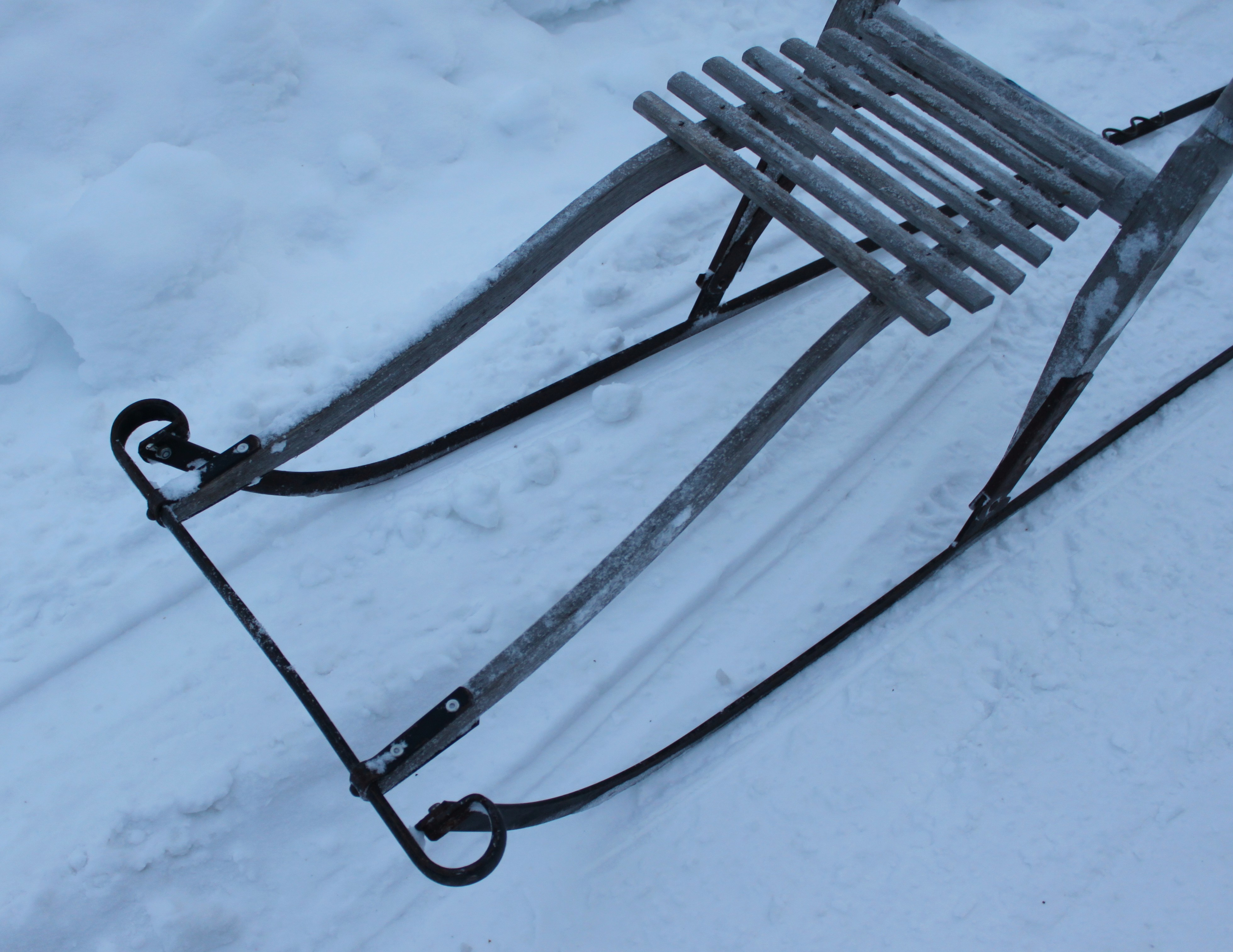 Norwegian kicksled with a special front